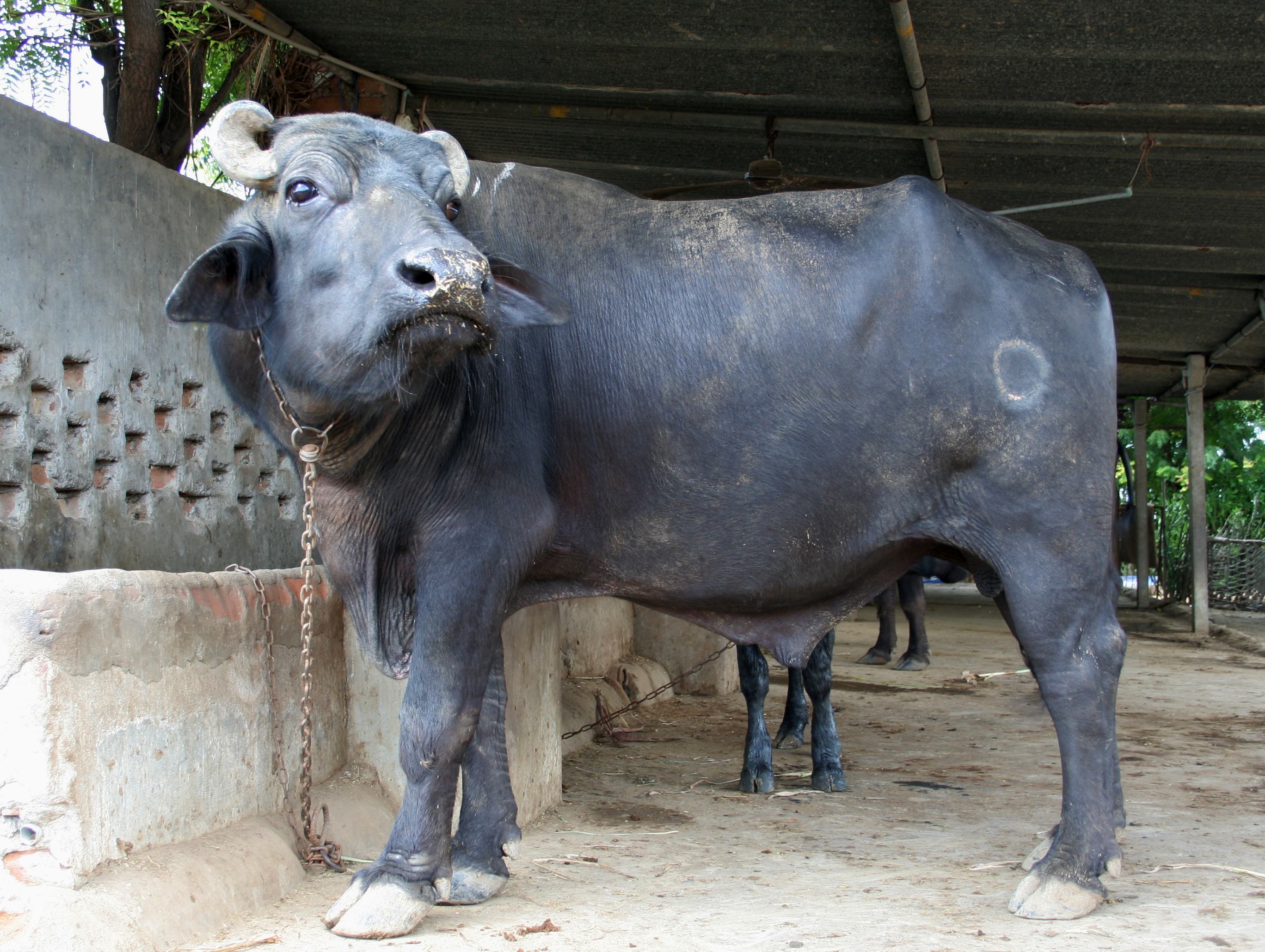 Water buffalo bull (Bubalus bubalis), near Mehsana, Gujarat, India.